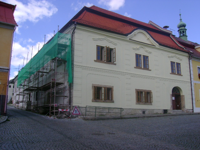 Town Museum in Žlutice